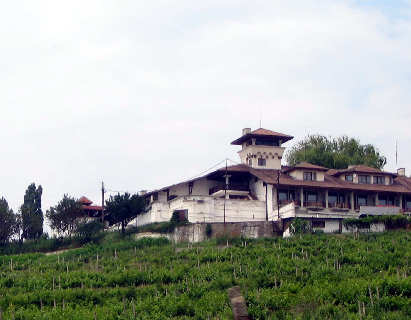 The Crama Seciu restaurant, Boldeşti-Scăeni, Romania, surrounded by vineyards